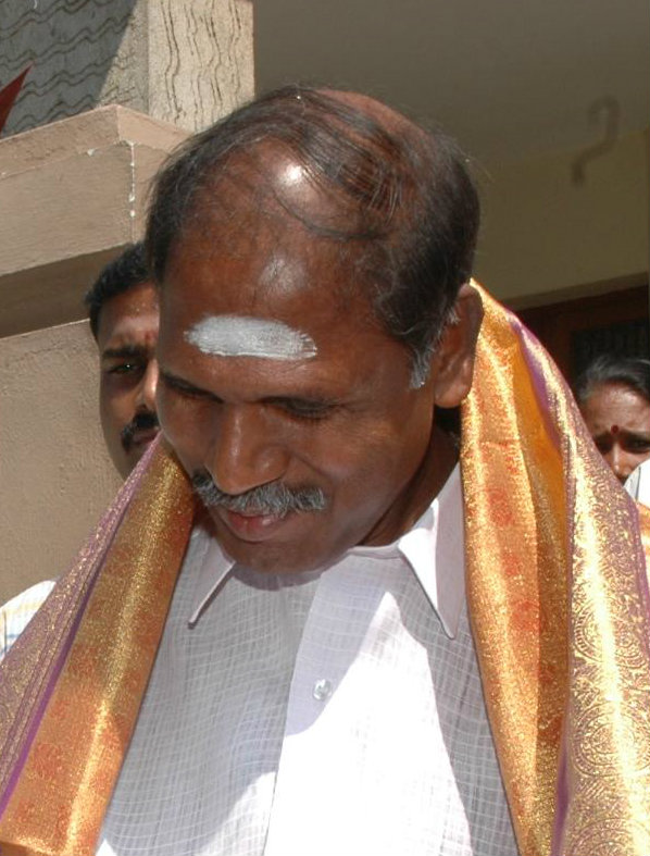 Chief Minister of Puducherry N. Rangaswamy